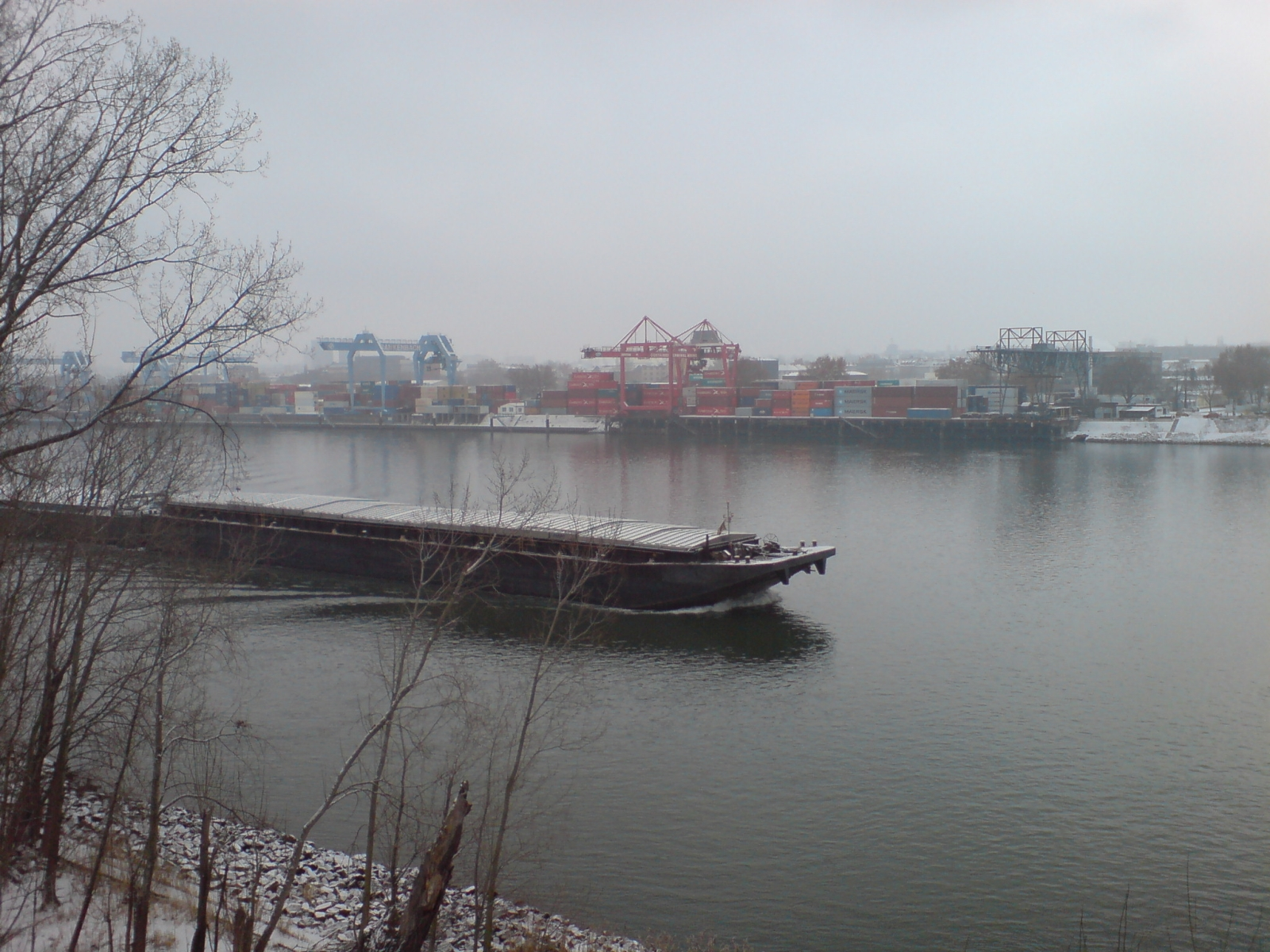 The cranes of the Port of Mainz, Mainz, Germany, seen from the western bank over the main arm of the Rhine.